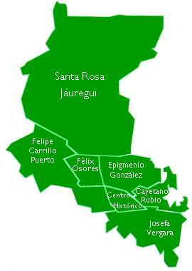 Districts of Queretaro municipality, Queretaro State, Mexico.